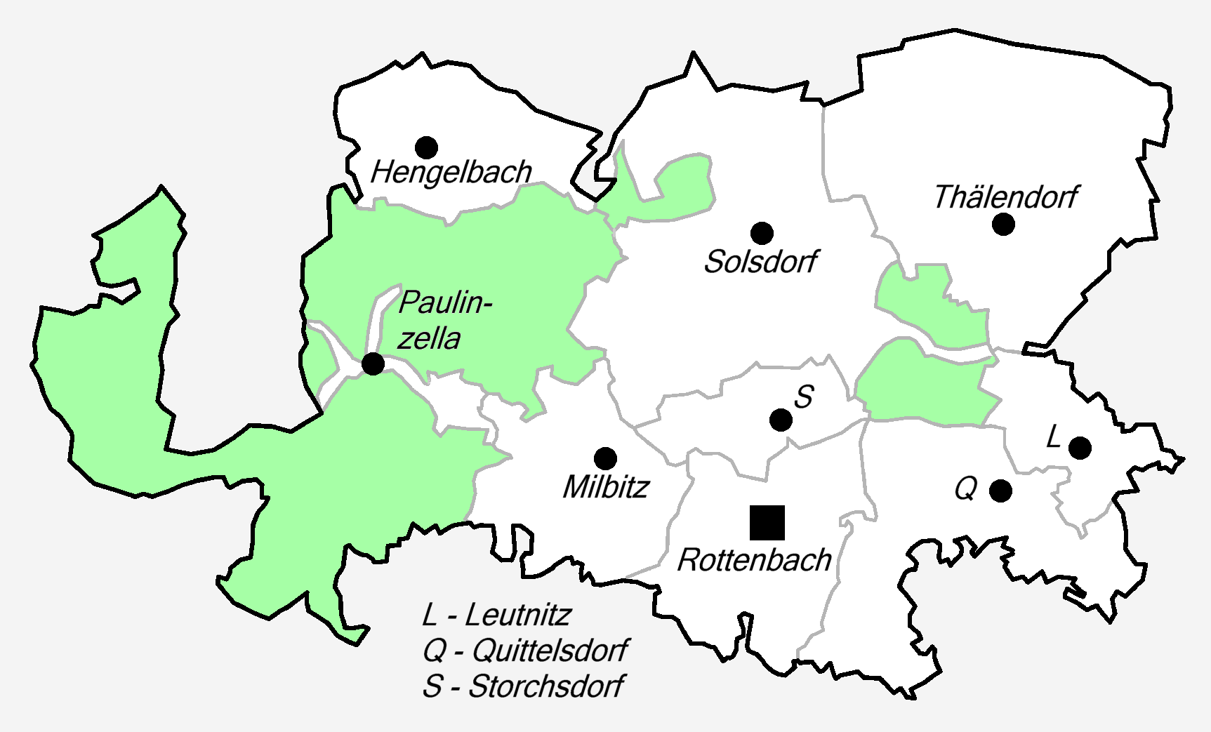 District-Maps of Forst Paulinzella in Rottenbach.